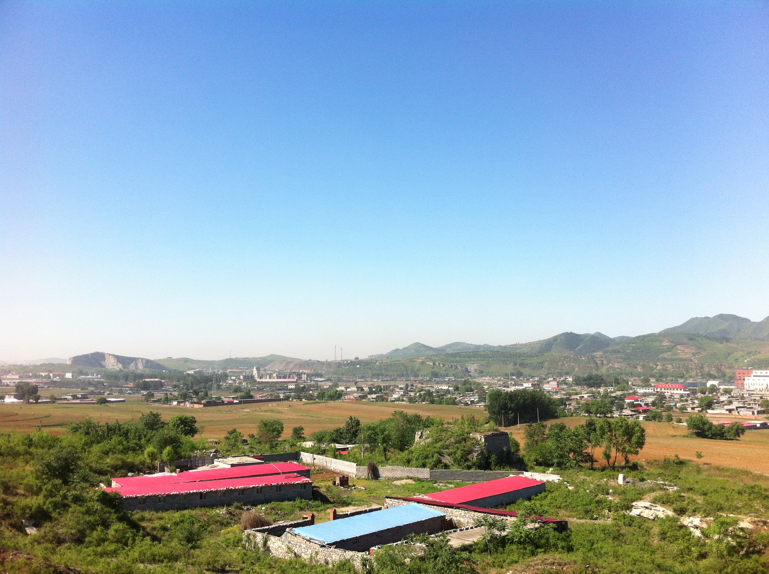 View of Shimenzhai, Qinhuangdao from Shaguodian.